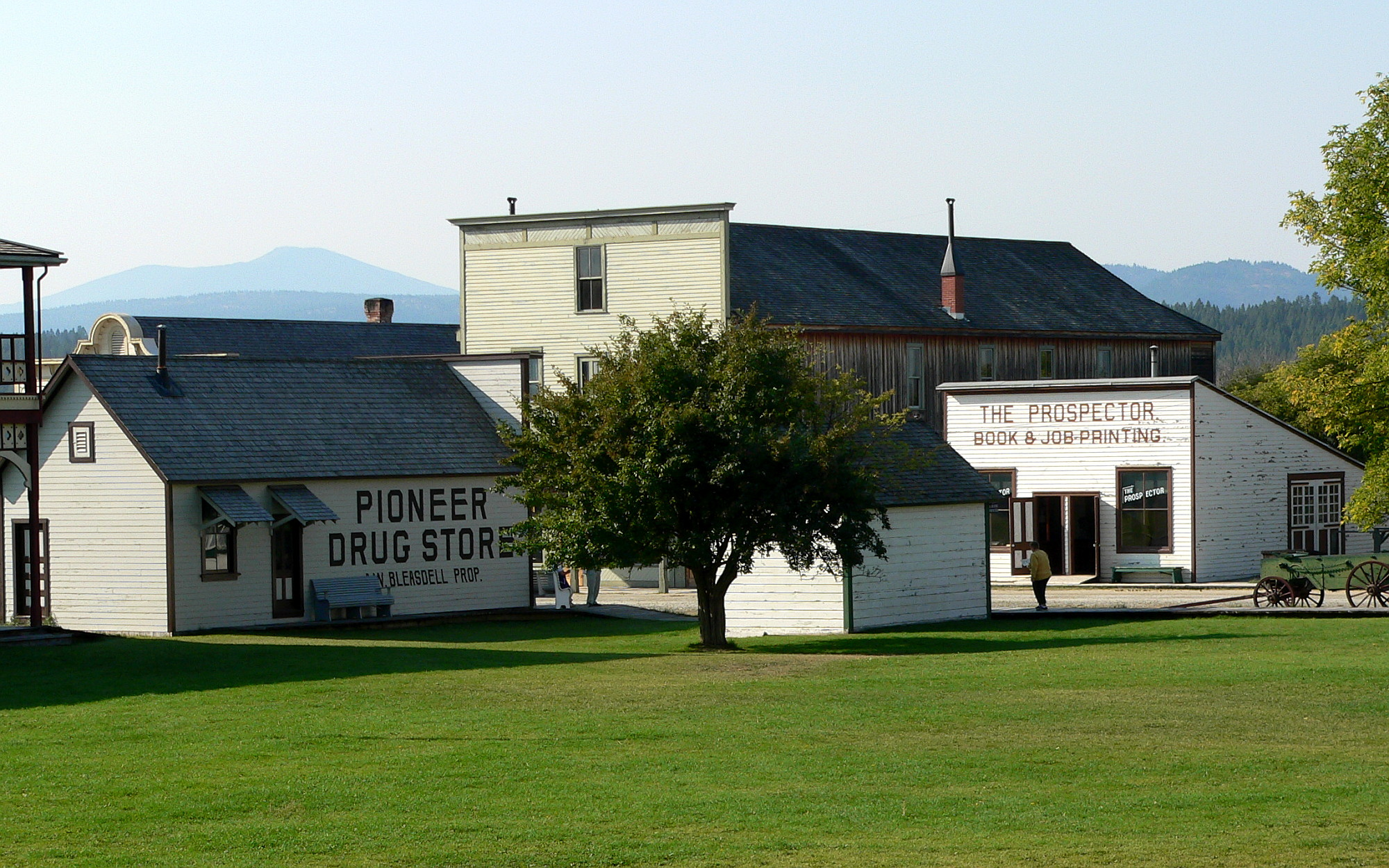 A few of the buildings that make up Fort Steele Heritage Park in British Columbia, Canada. Photo taken with a Panasonic Lumix DMC-FZ20.